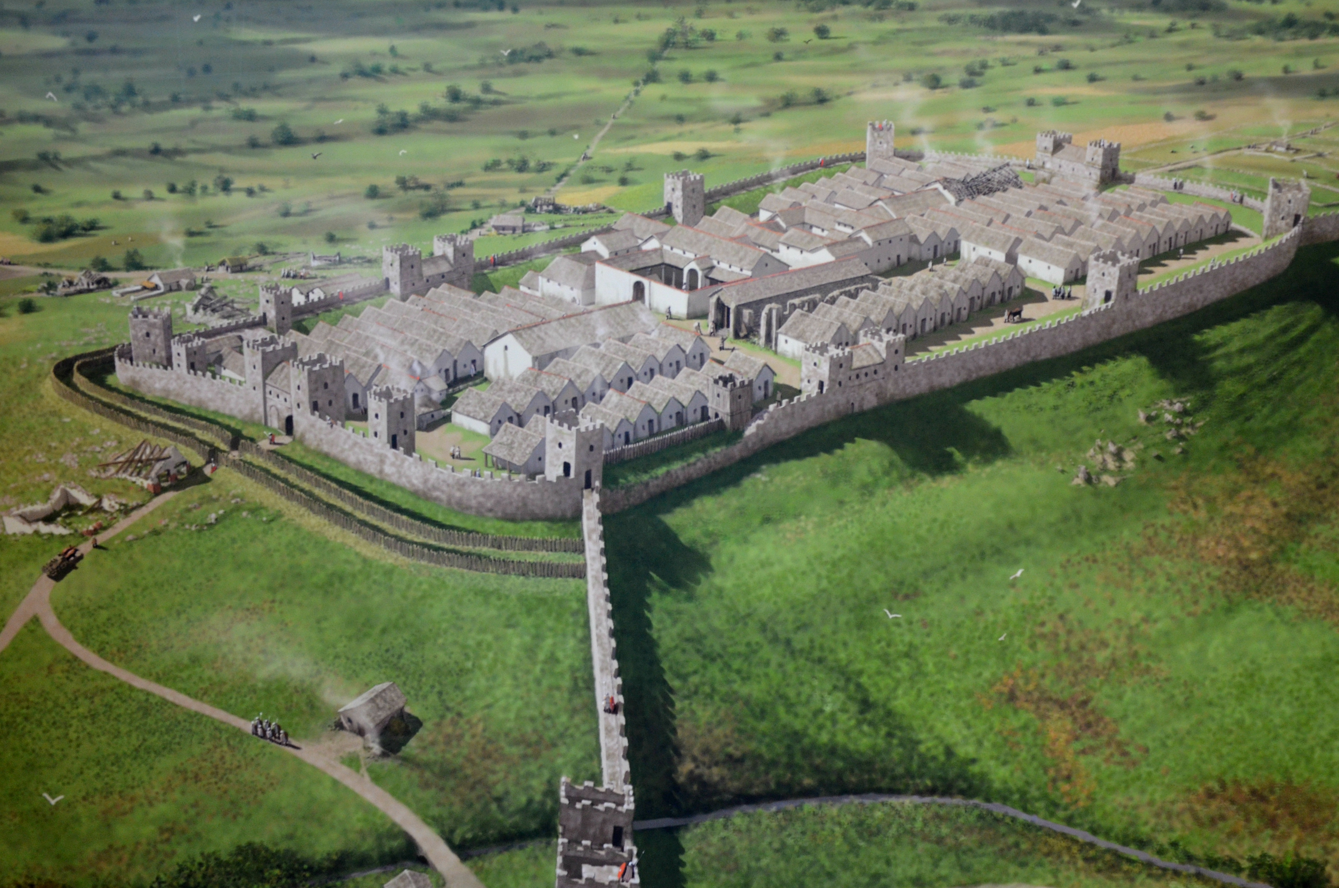 Housesteads in the 4th century AD, Housesteads Roman Fort (Vercovicium)